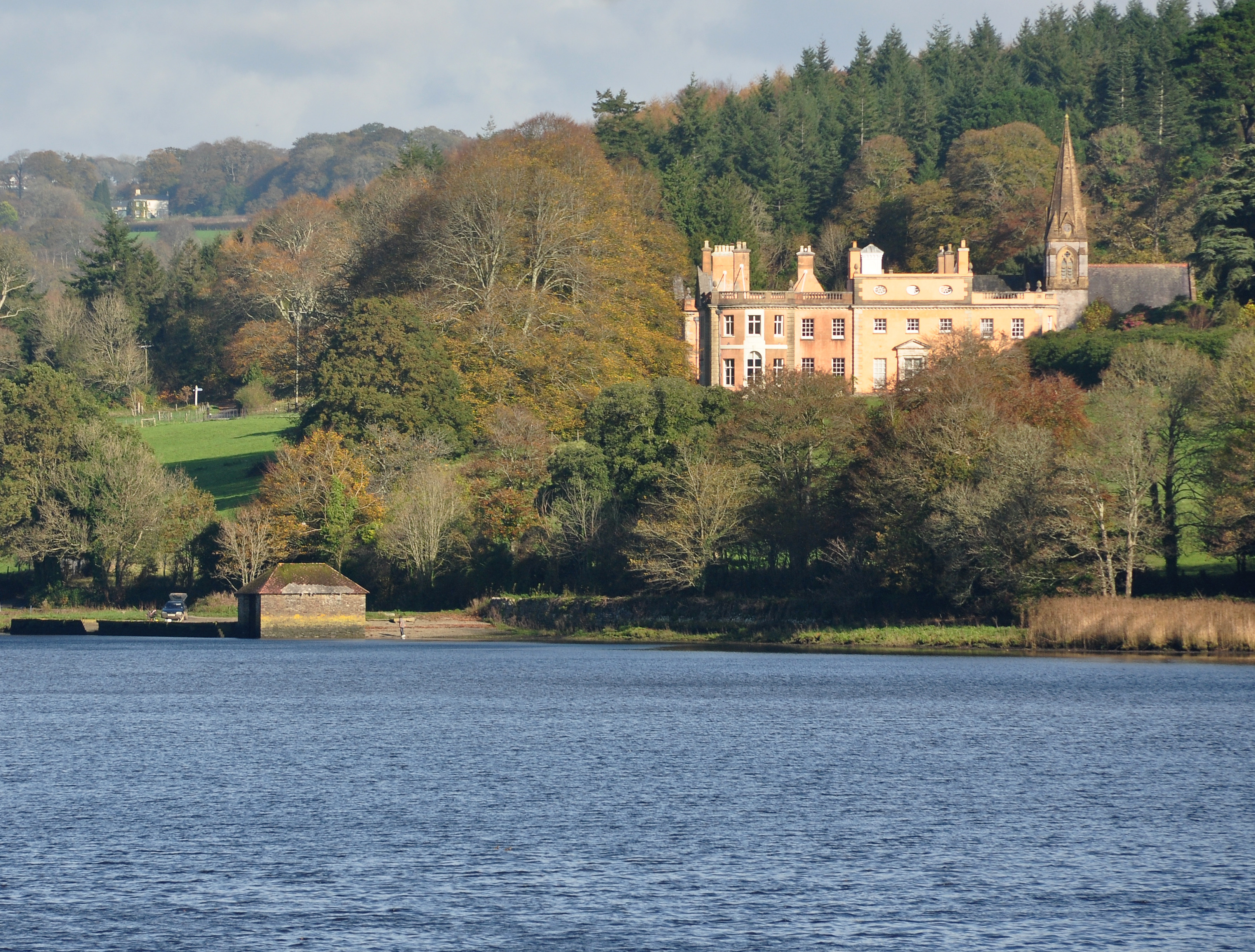 Maristow House overlooking the Tavy Estuary in Devon.